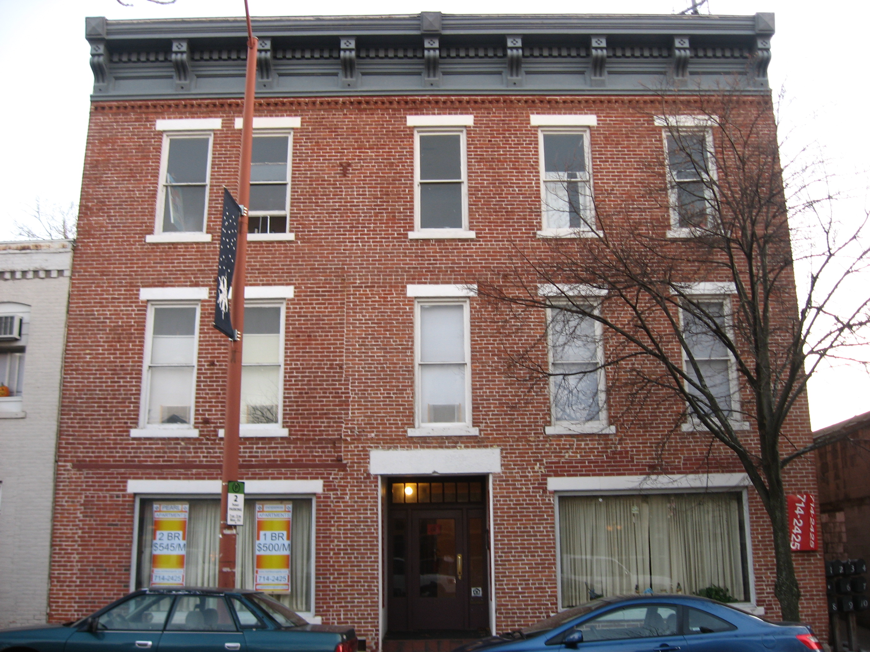 Front of the Enterprise Hotel, located at 1015 Main Street in Lafayette, Indiana, United States. Built in 1895, it is listed on the National Register of Historic Places.